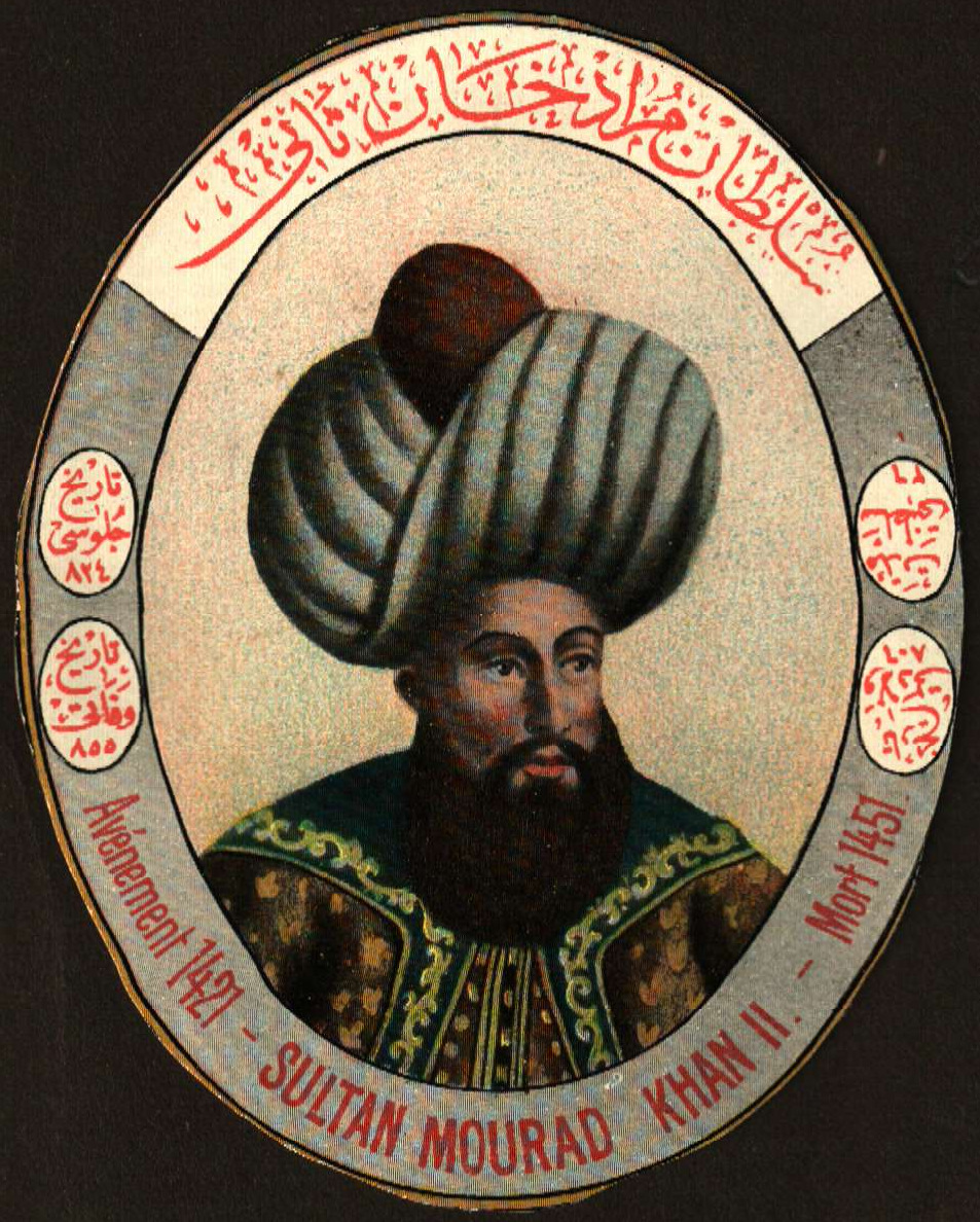 Murad II